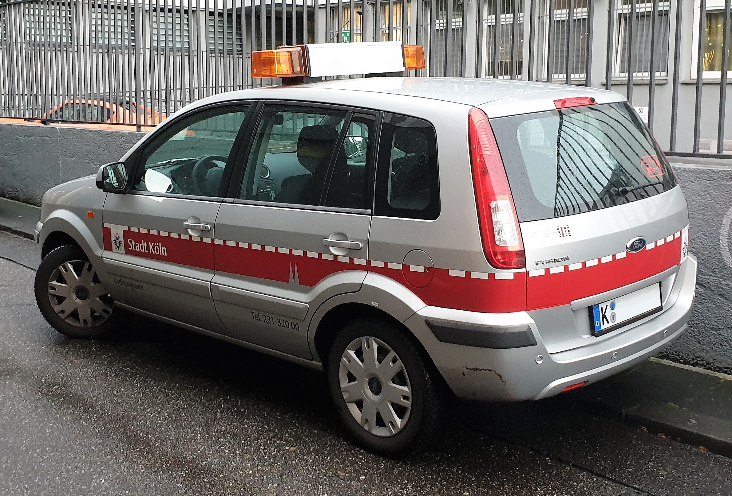 Ford Fusion (Europe), used as an official car of the office of public order in the City of Cologne, Germany.